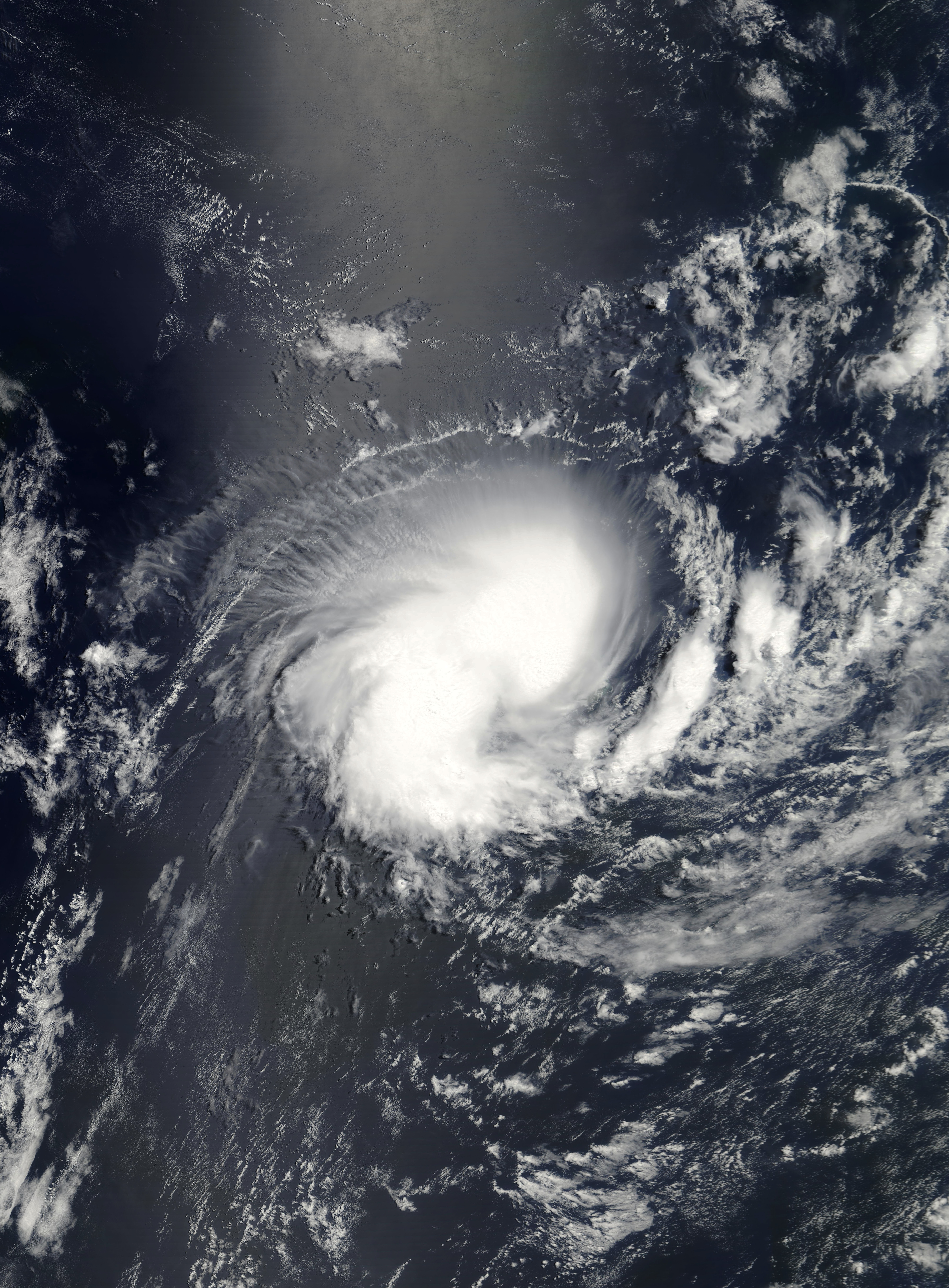 Cyclone Hondo near Mauritius and Réunion after regenerating on February 23, 2008